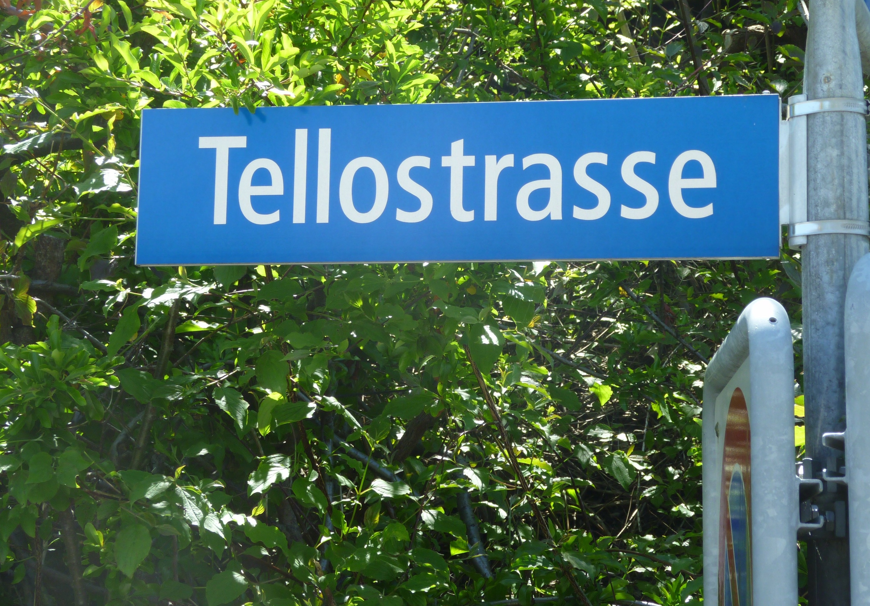 Tellostrasse in Chur